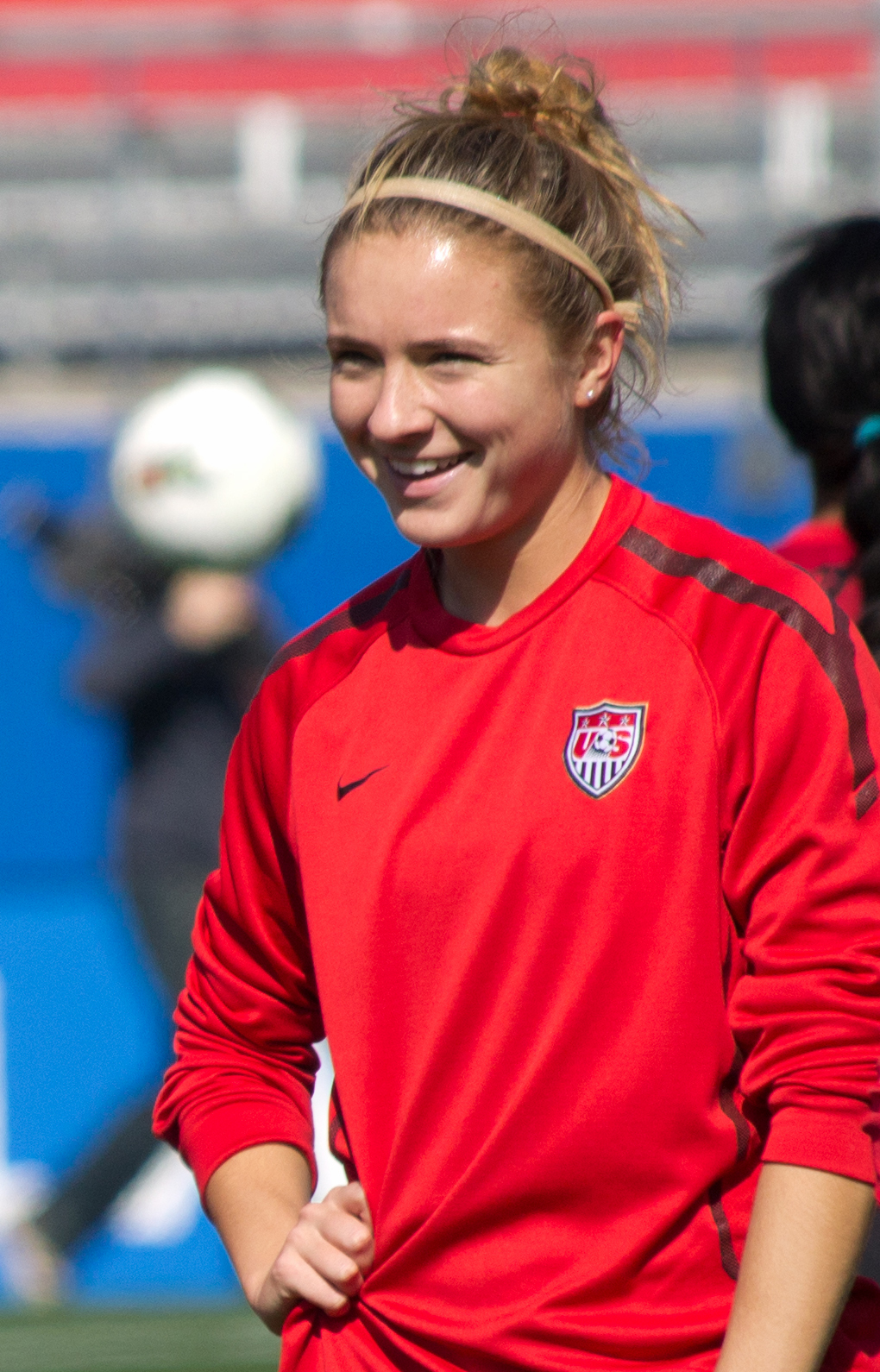 Kristen Mewis of the United States Women's National Soccer Team in Frisco, Texas